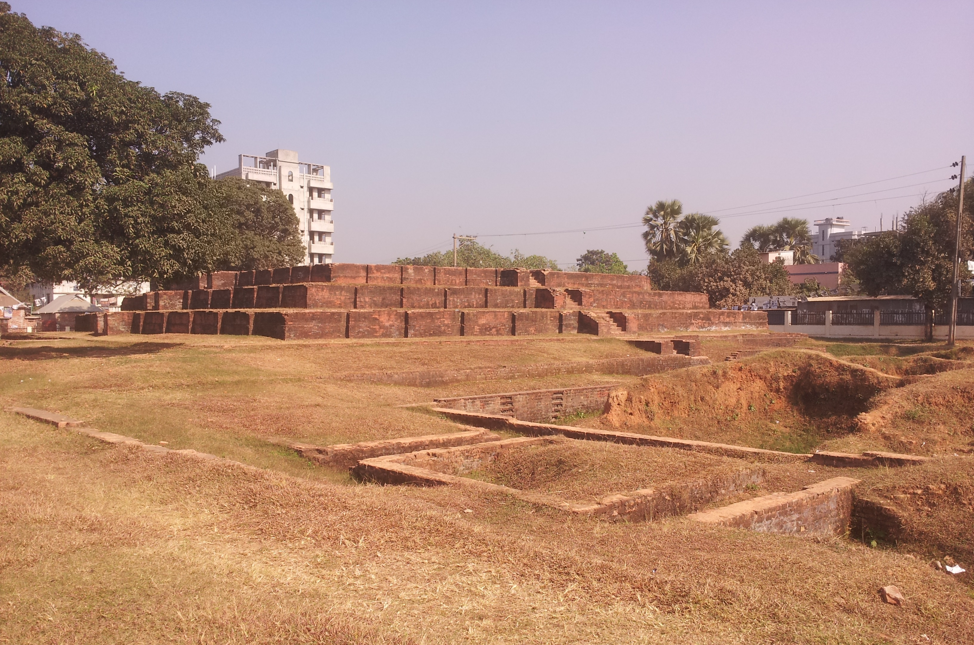 Palace of Raja Harishchandra at maidpur in Savar, Dhaka.